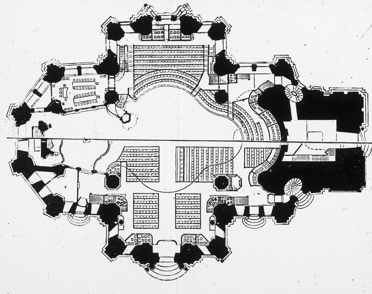 Groundplan of St.Michealis at Hamburg